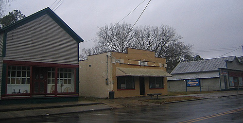 I am the author of this file and grant full permission to Wikipedia. Middle Building owned by Marvin and Emily Davenport for 47 years and was Davenport's Market for that time period.